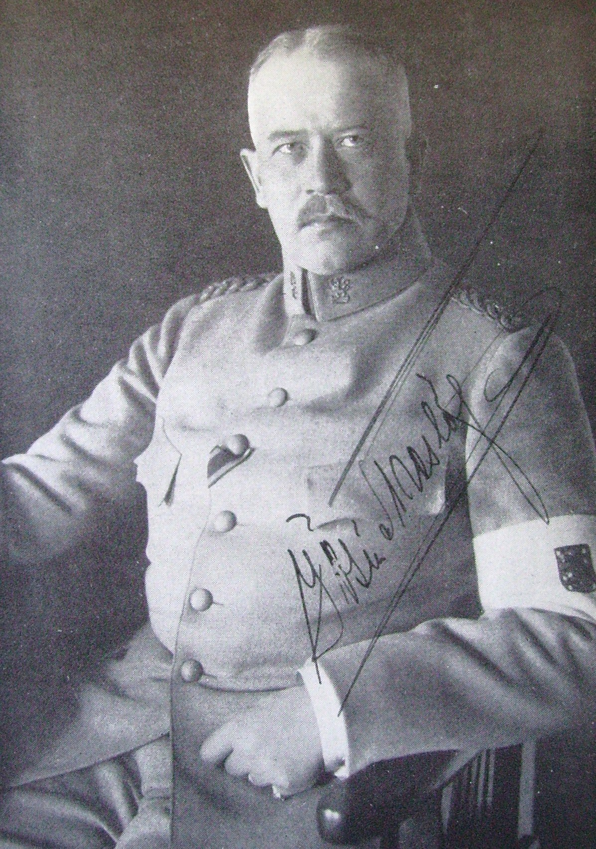 Picture of Gösta Theslöf, Finnish officer